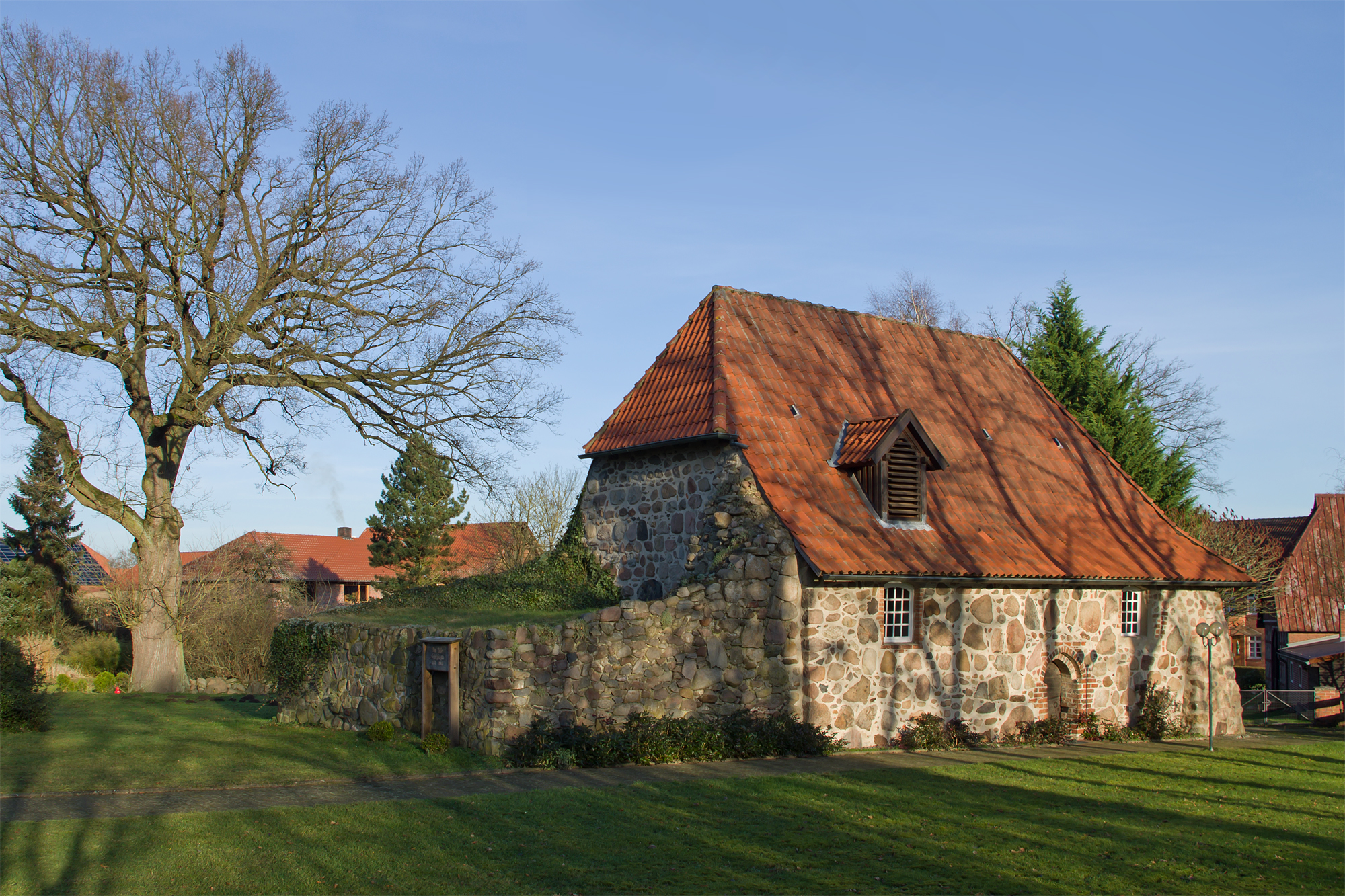 Chapel of the small village Schäpingen (district Lüchow-Dannenberg, northern Germany).